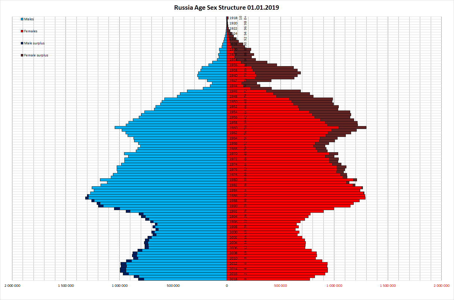 Population of Russia by sex and age on 01.01.2019